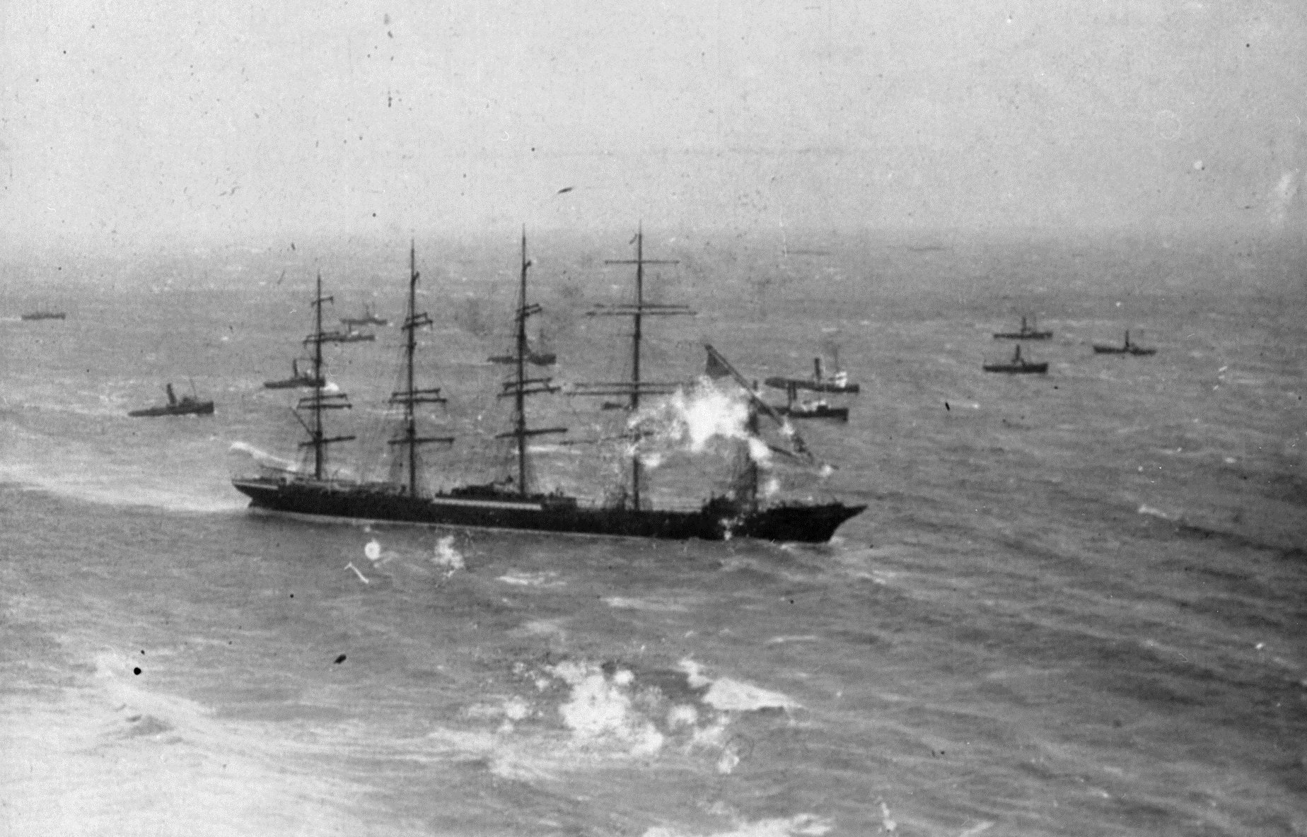 Full rigged five mast ship „Preussen“ after collision. Ashore at Dover, 1910.